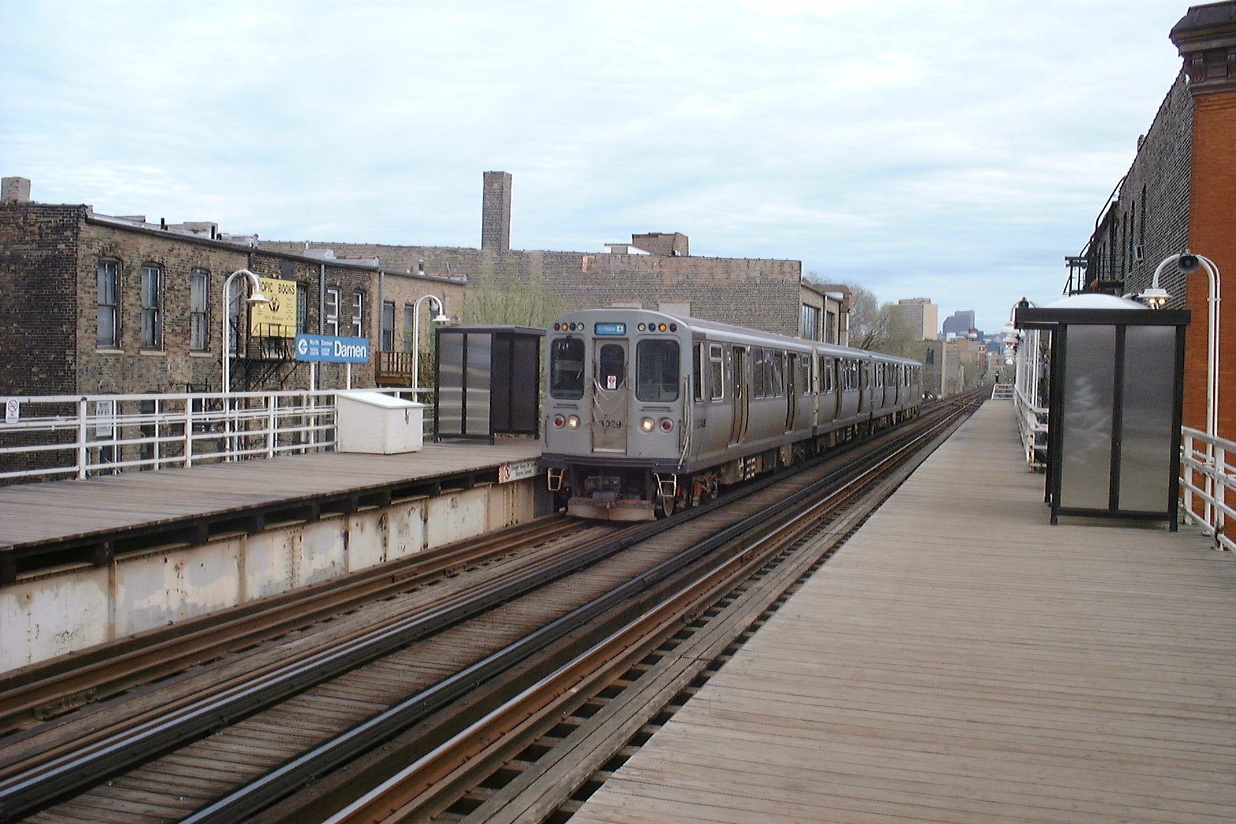 Damen Station on the CTA Blue Line